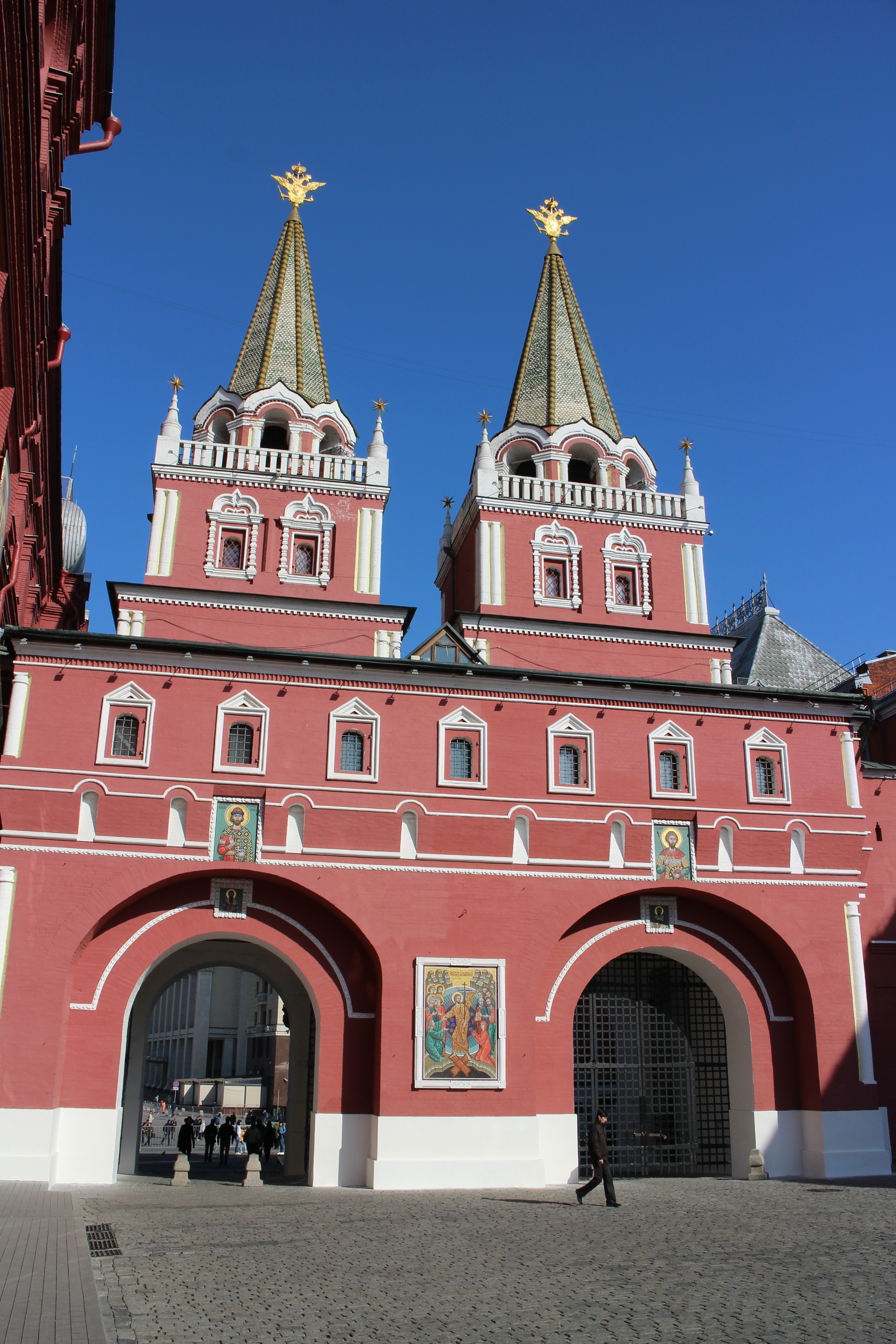 Resurrection Gate in Moscow